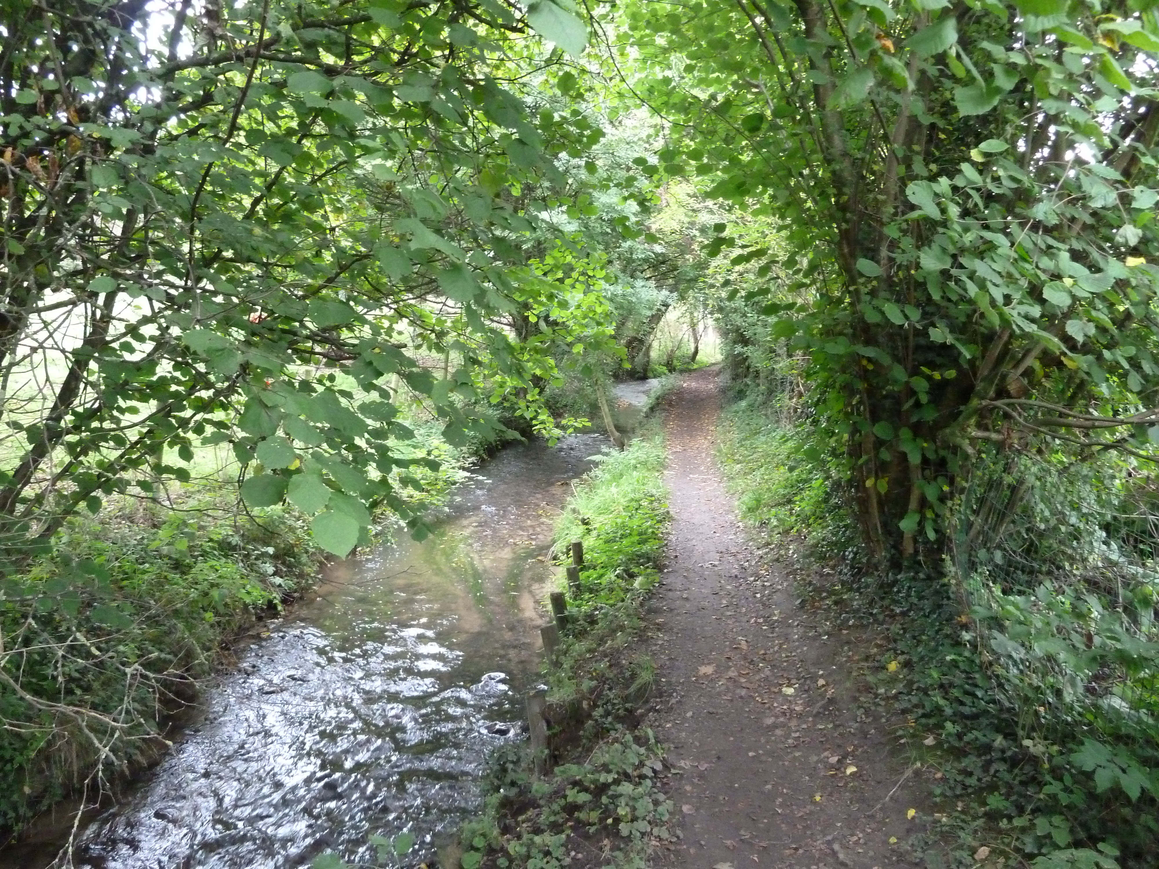 The Voer near the "Molen op de Meulenberg" in 's-Gravenvoeren, Belgium